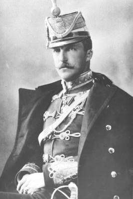 Field marshal Archduke Joseph August of Austria 1872-1962, son of Archduke Joseph Charles Louis, and grandson of Archduke Joseph Anton of Austria, Palatin of Hungary.